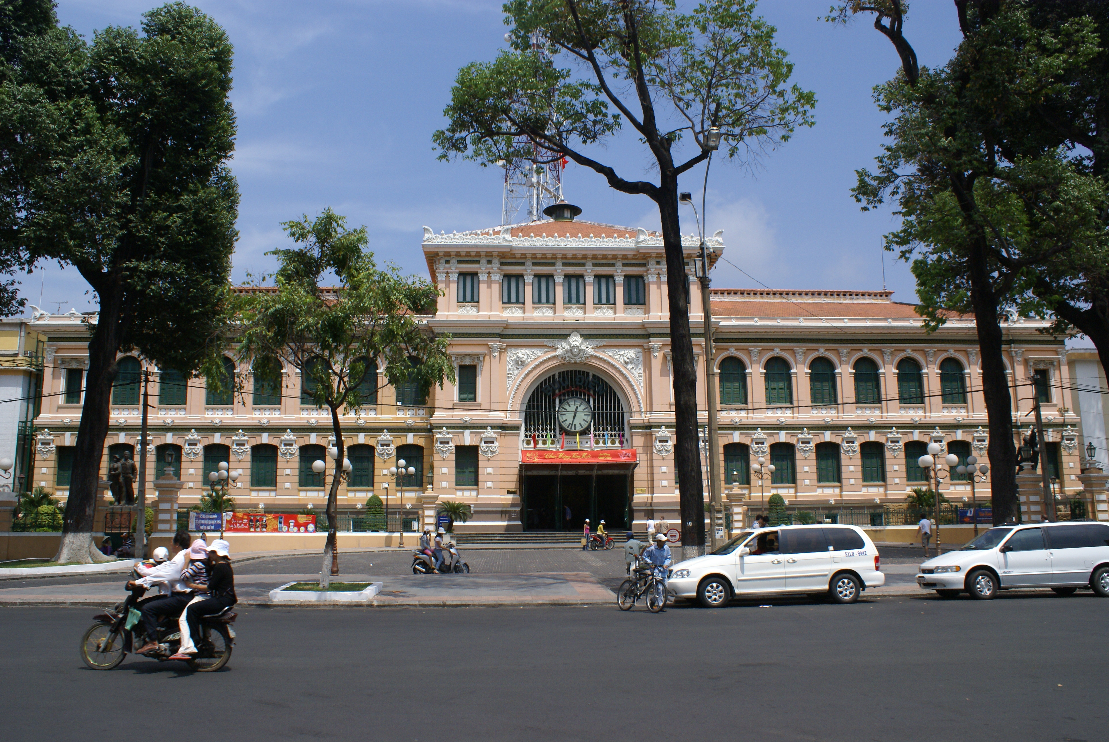 Outside the Central Post Office in Ho Chi Minh City, Vietnam.